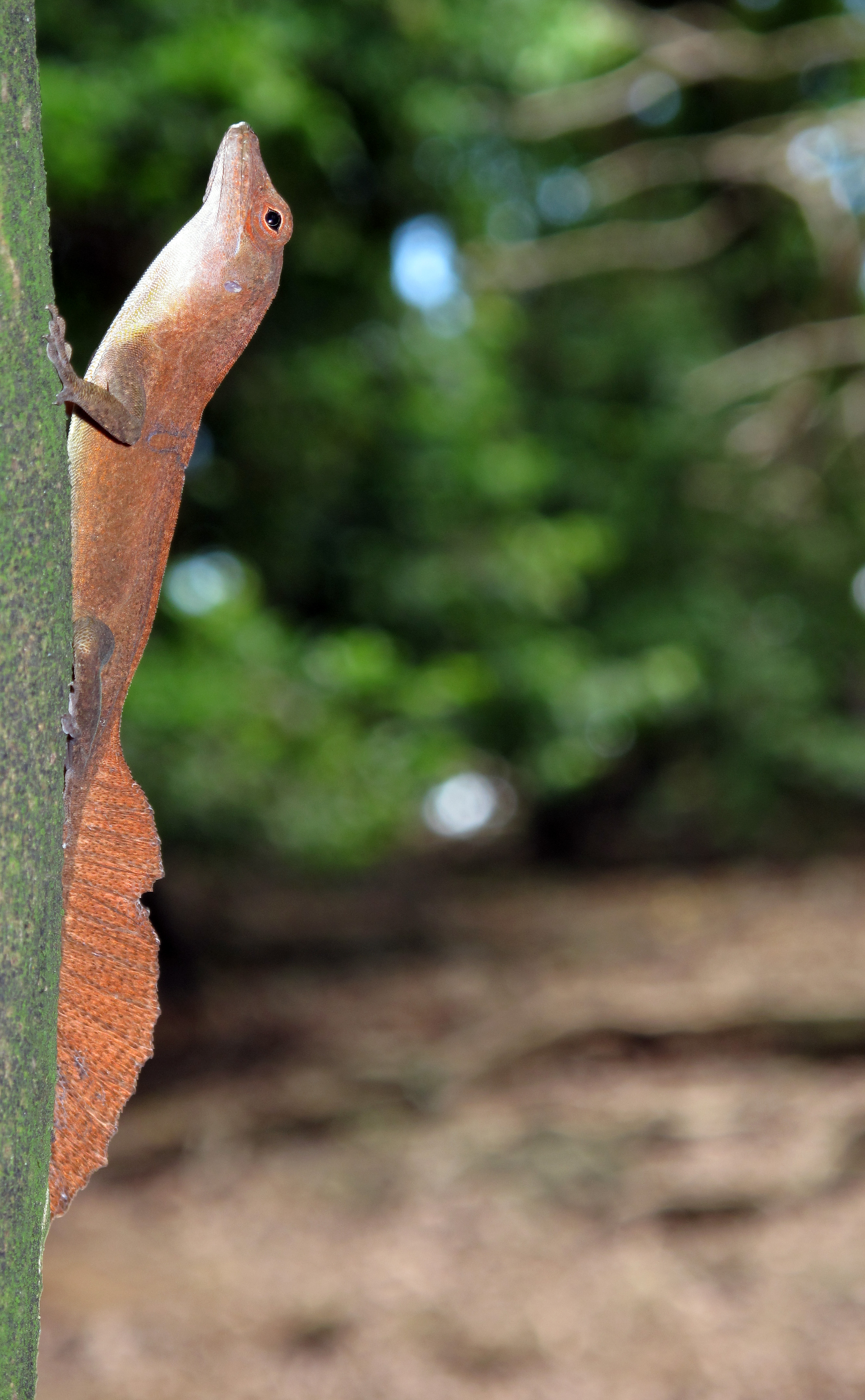 large anolis cristatellus